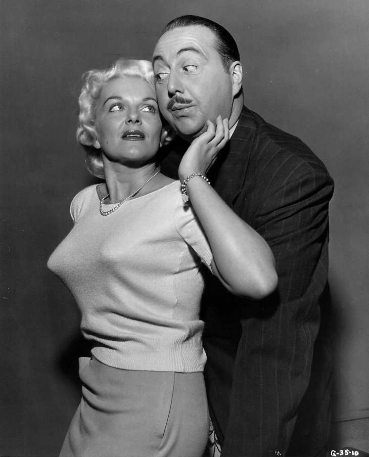 Willard Waterman as Throckmorton P. "Gildy" Gildersleeve, with Stephanie Griffin, in the U.S. television situation comedy The Great Gildersleeve.